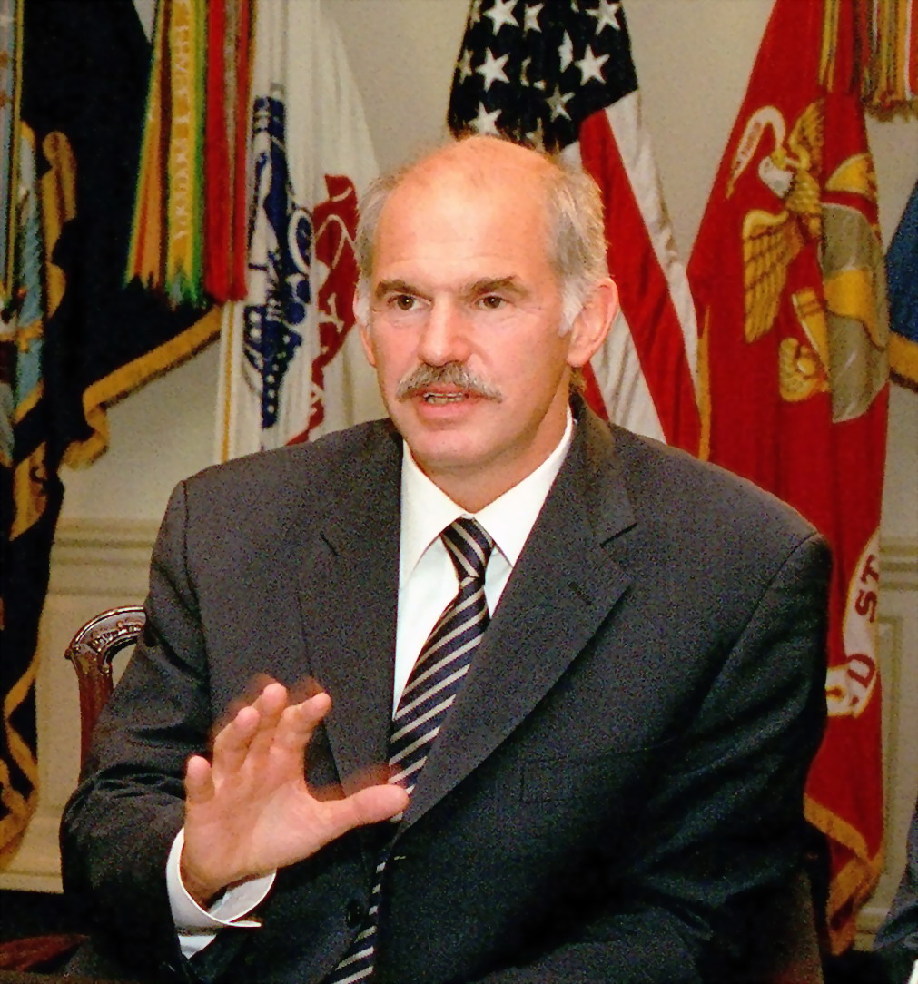 George Papandreou Minister of Foreign Affairs of Greece.